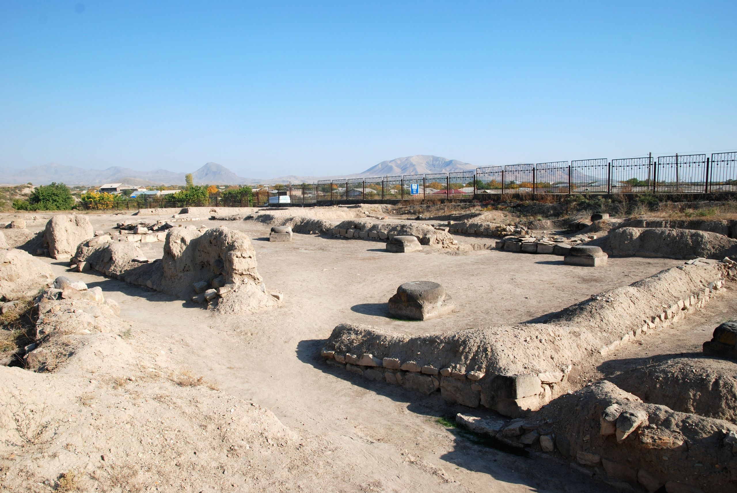 Dvin, catholicos first palace